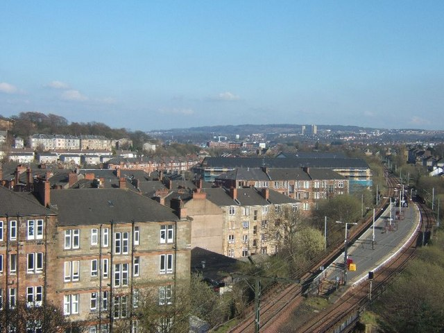 Pollokshaws East railway station